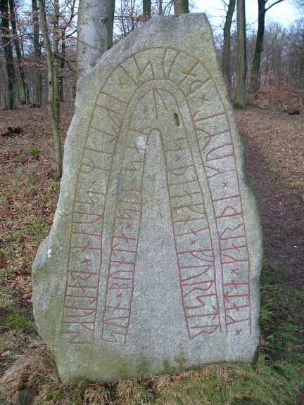 Rydsgård runestone DR277